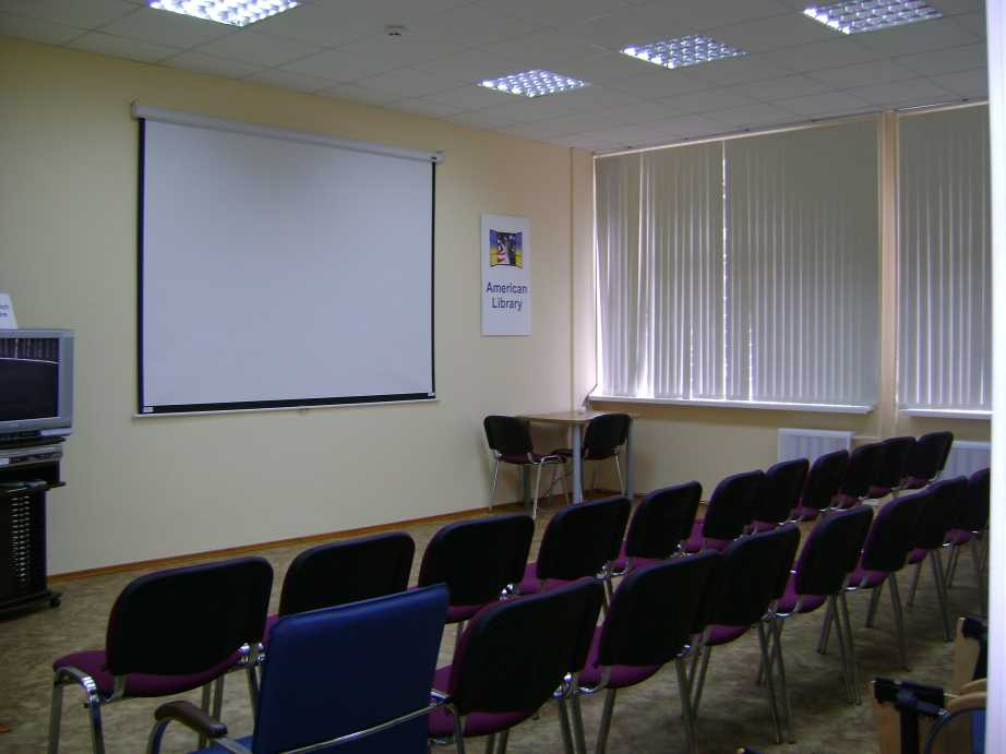 American Library mediaroom